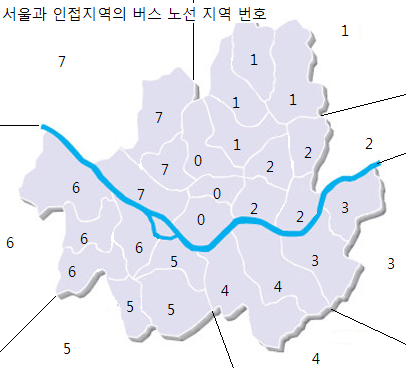 Bus number area of seoul